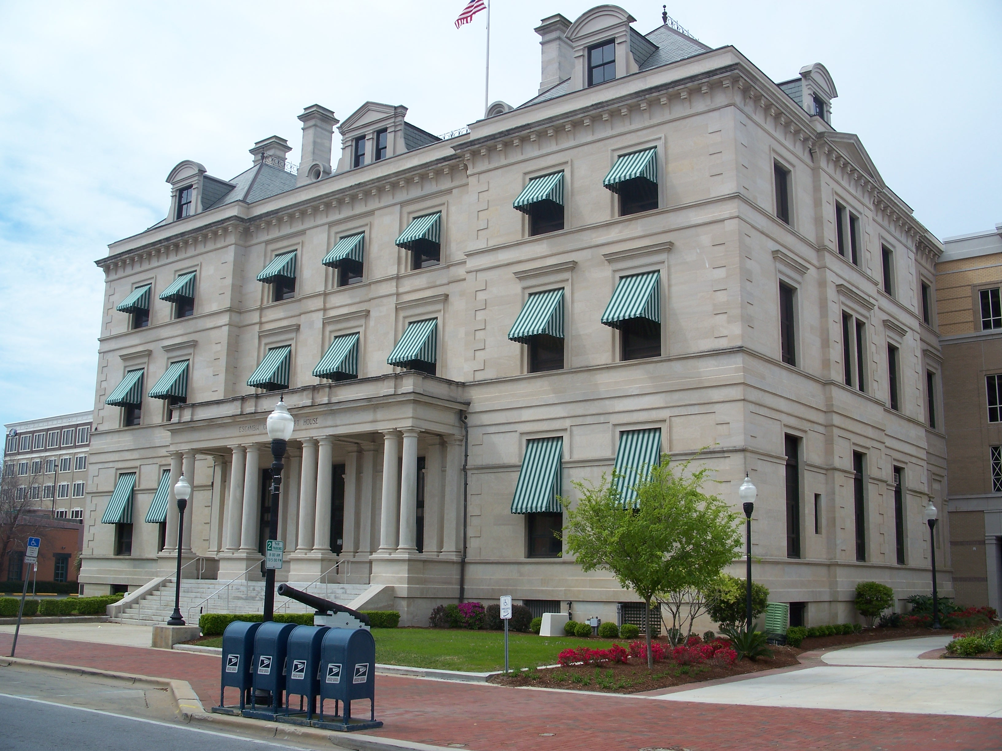 Pensacola, Florida: The old U.S. Customs House and Post Office, once known as the Escambia County Courthouse.